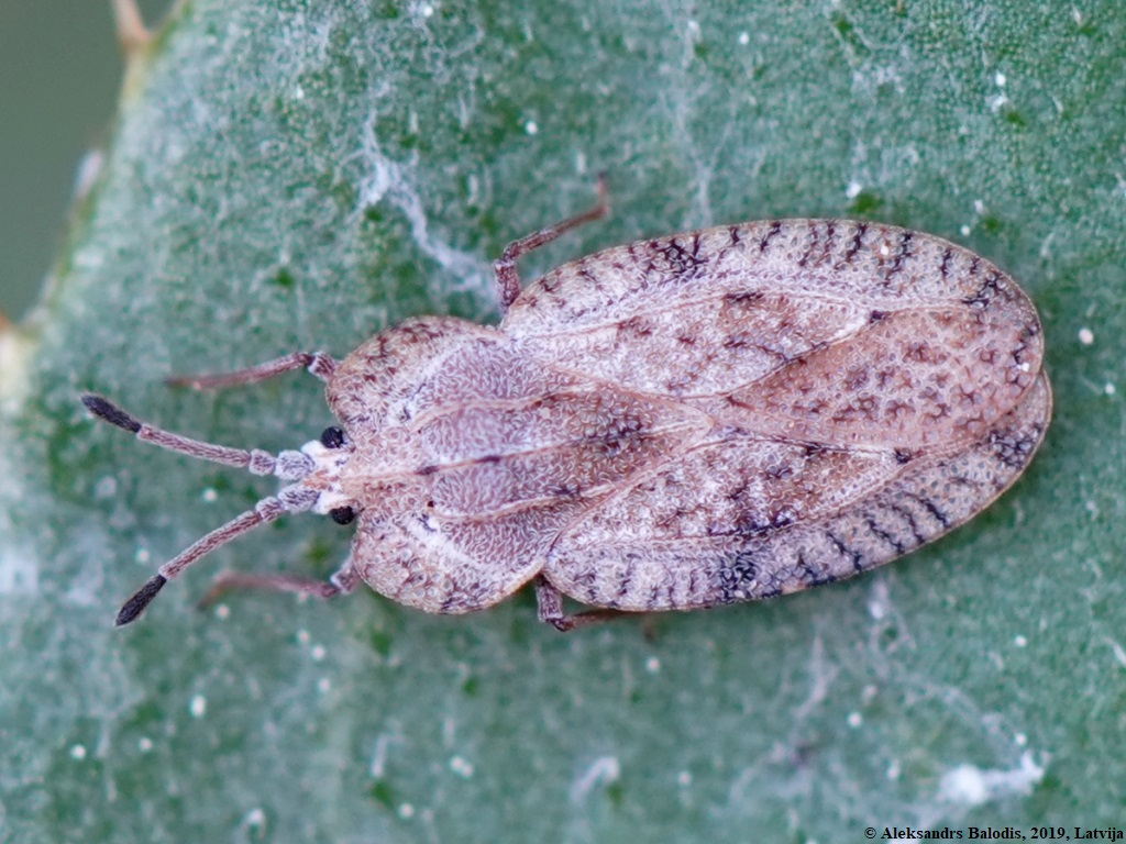 Tingis ampliata